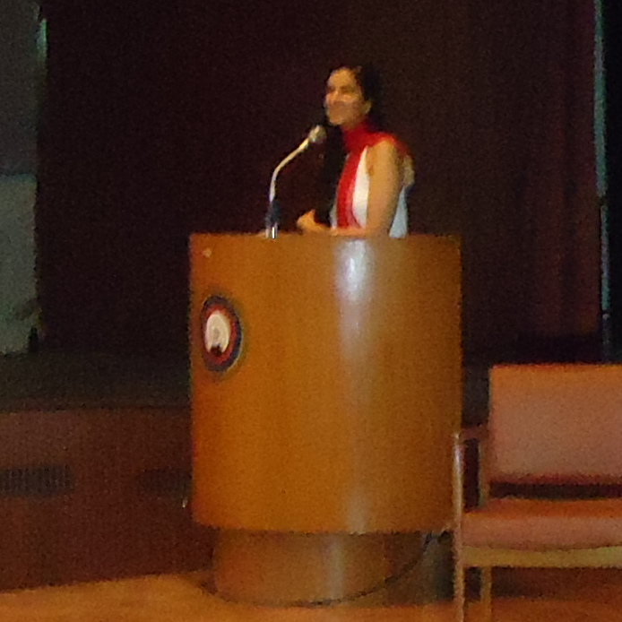 In conversation with Ira Trivedi at IIT Delhi's Literati 2011